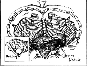 Picture from article of founder of world and american neurosurgery Harvey Cushing (died 1939) which shows cerebellum and hemangioblastoma (Cushing`s case report)